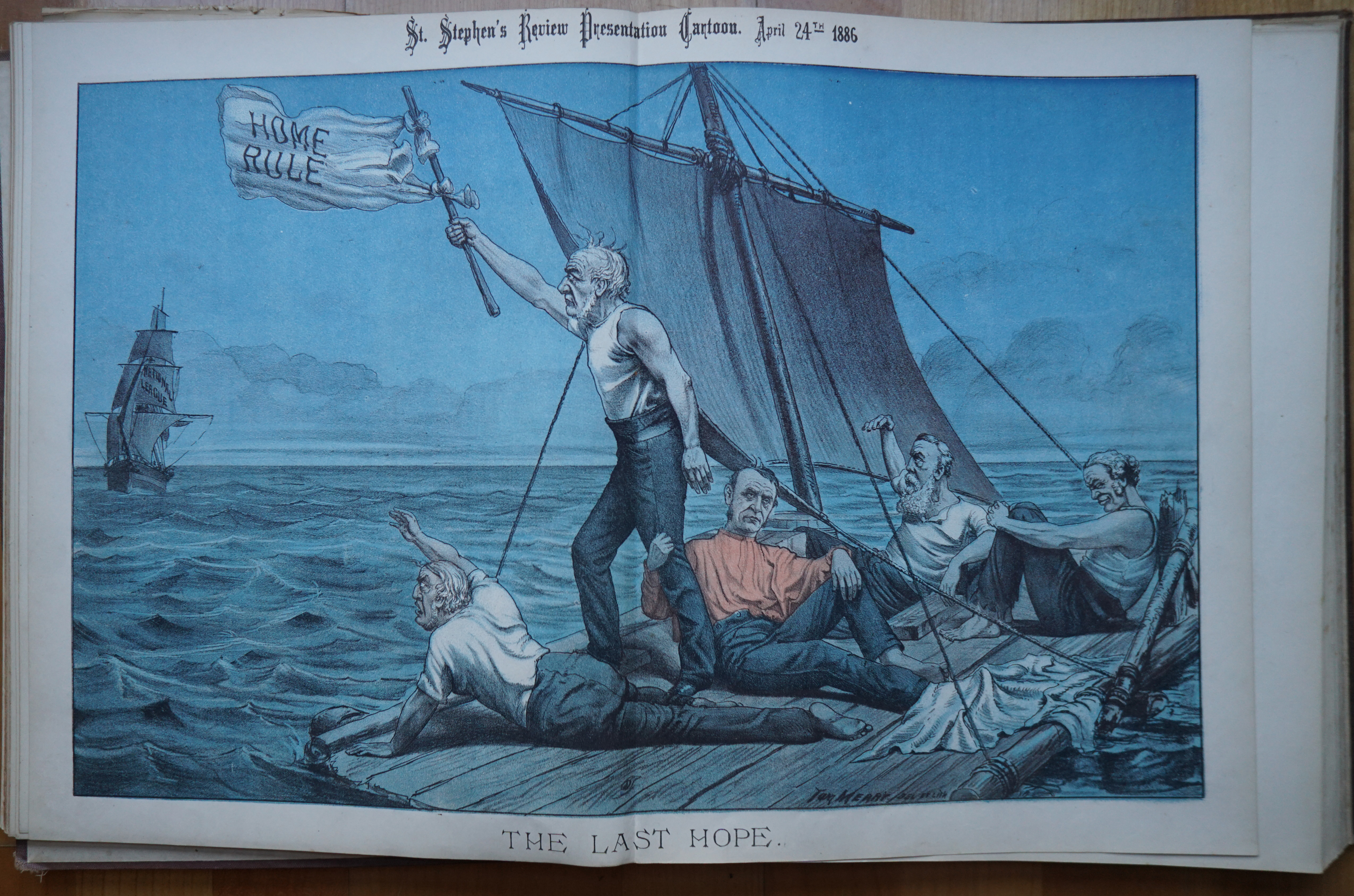 Image from a book of British political cartoons from the 1880s.